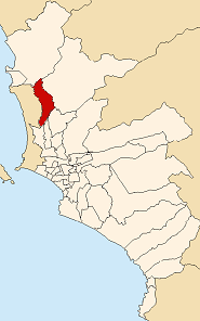 Map of Lima highlighting the Puente Piedra district in northern Lima.